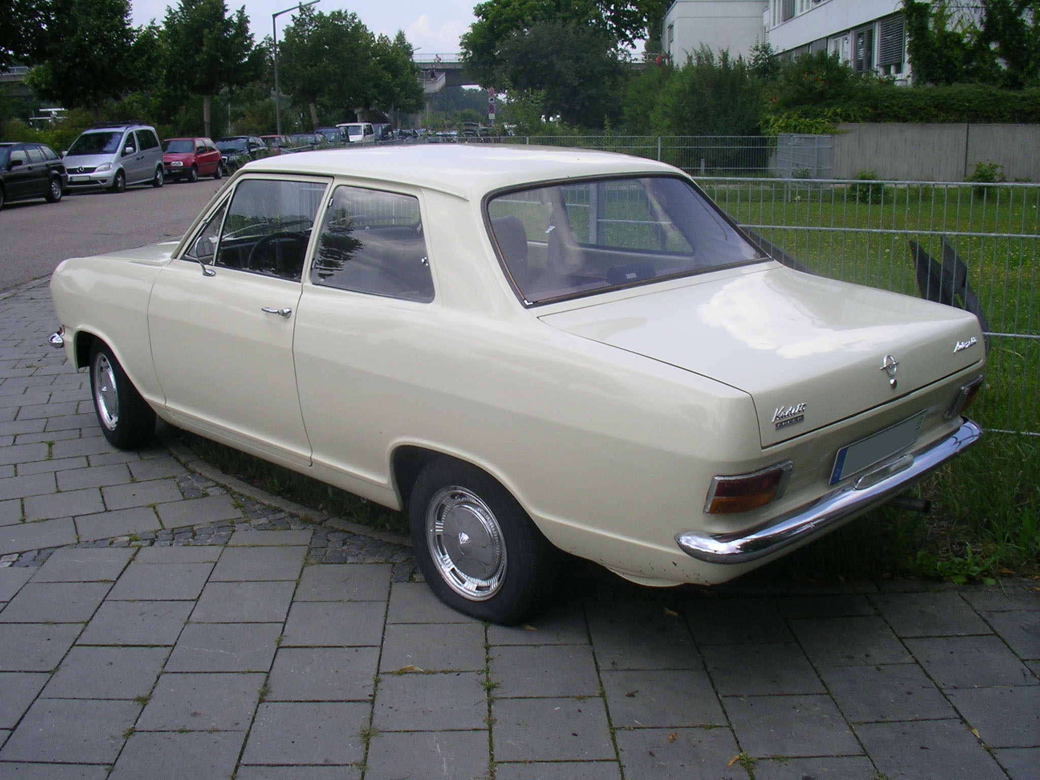 Opel Kadett B Automatic